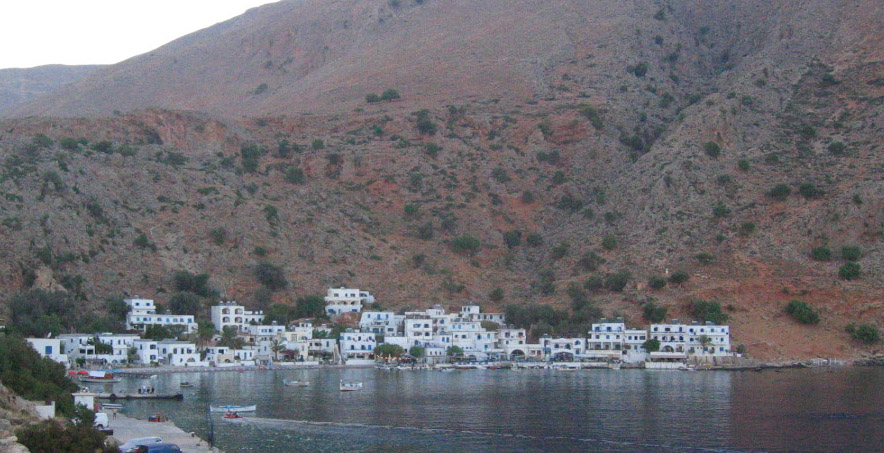 Description Loutro Date1er juin 2008SourceSelf-photographedAuthorFiLiPoOo Loutro